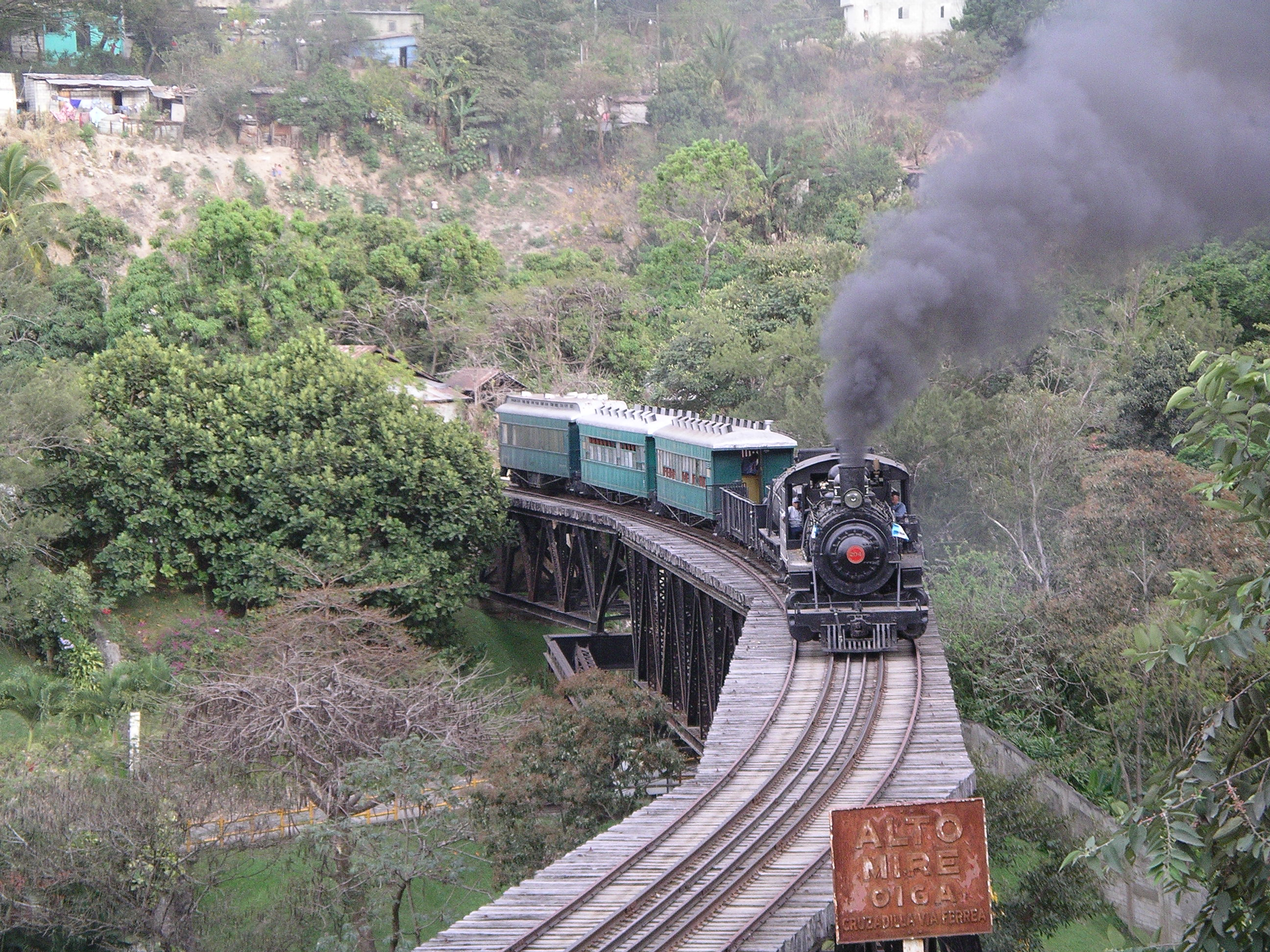 Steam tourist train crossing the bridge over Rio Plátanos, 30 km east of Guatemala City, in Guatemala 2007. The steam locomotive is C.A. No 204, built by The Baldwin Locomotive Works in USA, as No 74134, Nov 1948. The sign in front (Alto Mire Oiga - cruza de la via ferrea) means Stop, Look, Listen - railroad crossing.